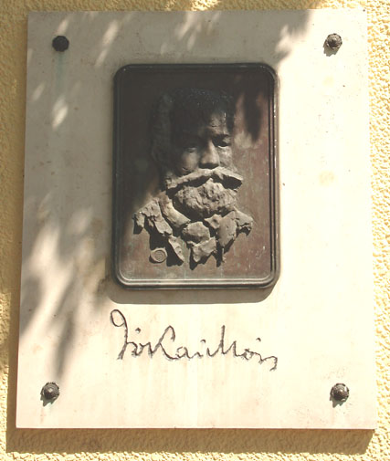 Péter Szanyi: Mór Jókai. Miskolc, Hungary